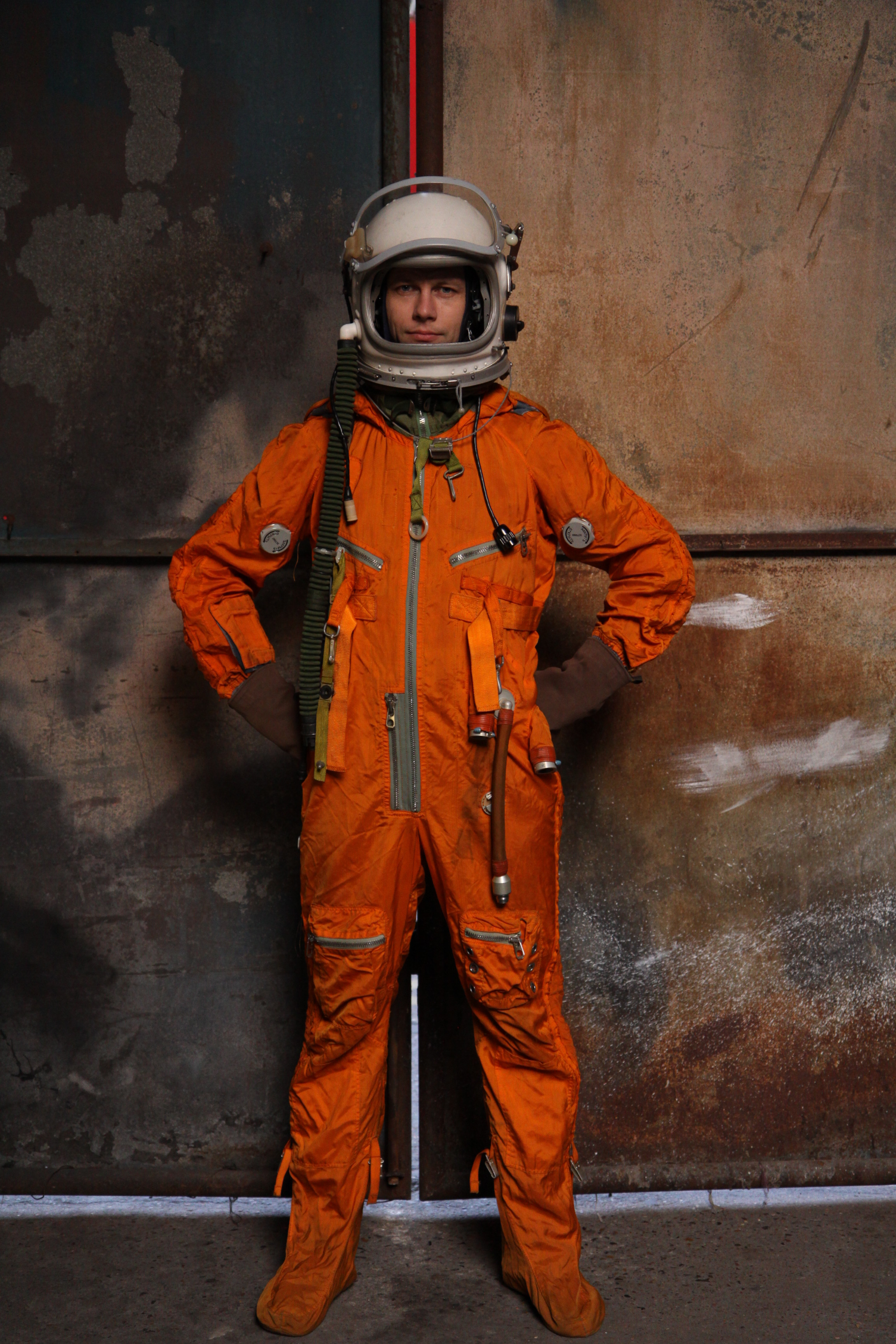 es Stas. photo by Daniel Mayrit.